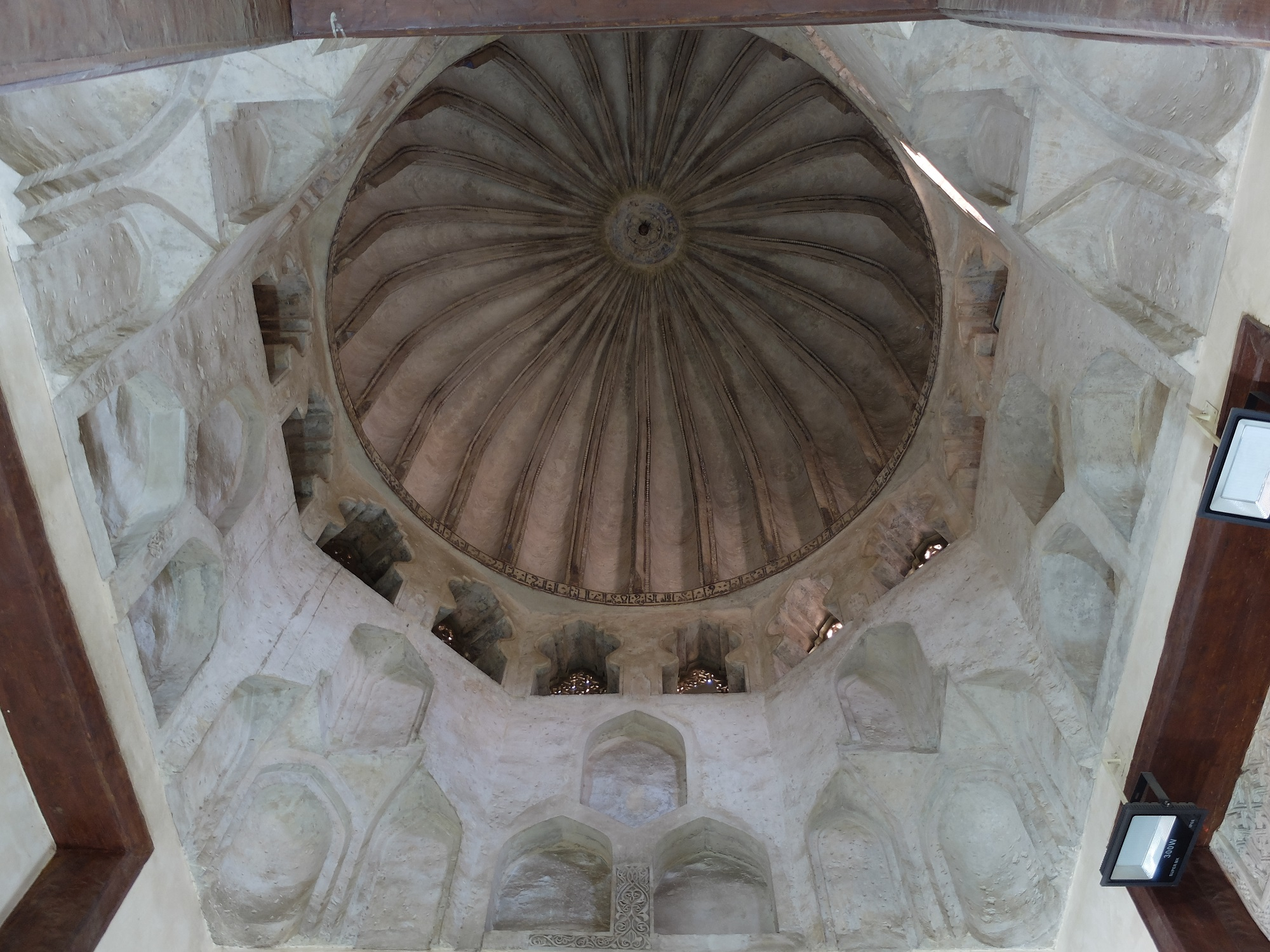 Inside the dome of the Mashhad of Sayyida Ruqayya.